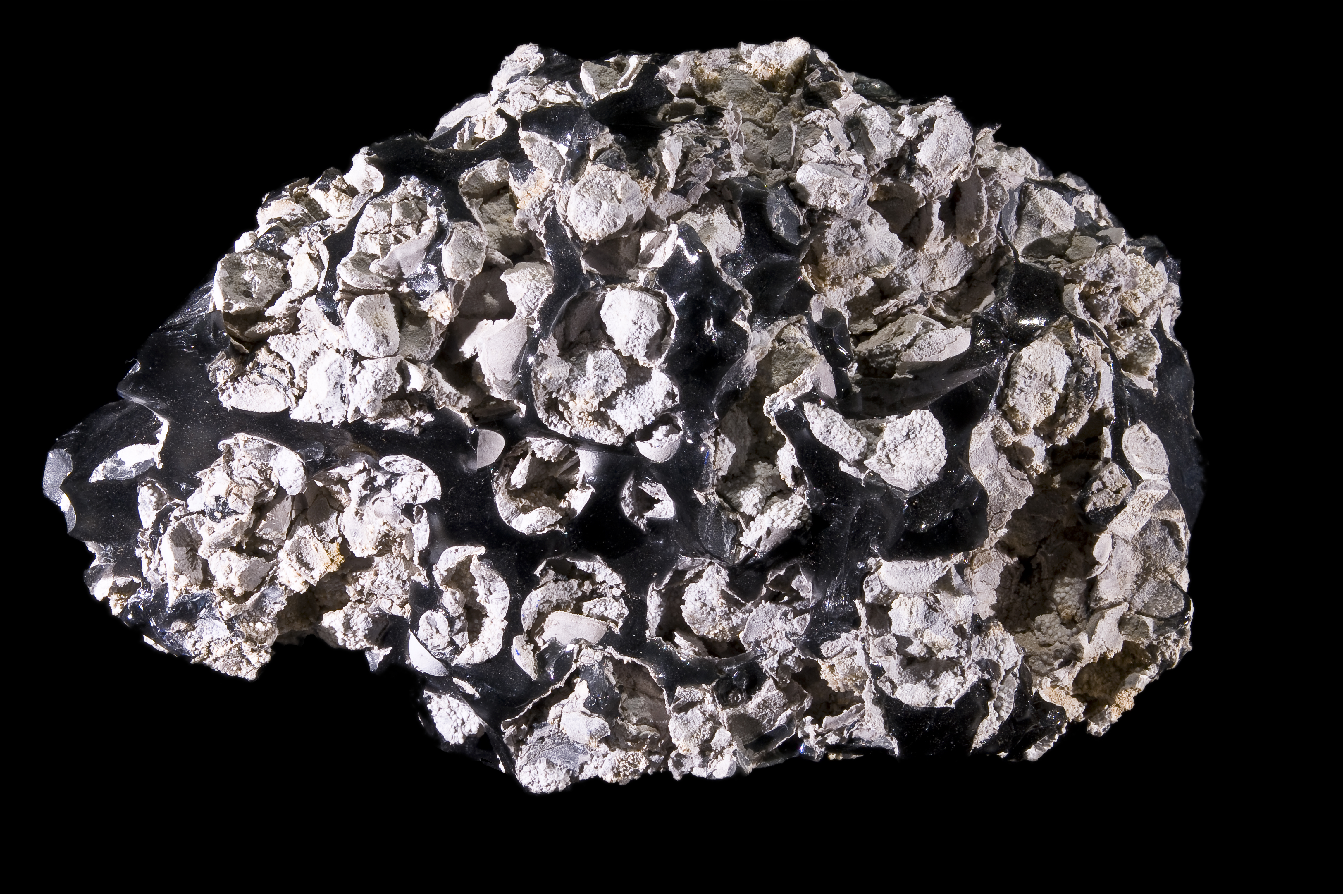 Cristobalite on obsidian Locality : Coso Hot Springs deposit, Coso Hot Springs, Inyo Co., California, USA Size : 14x8cm